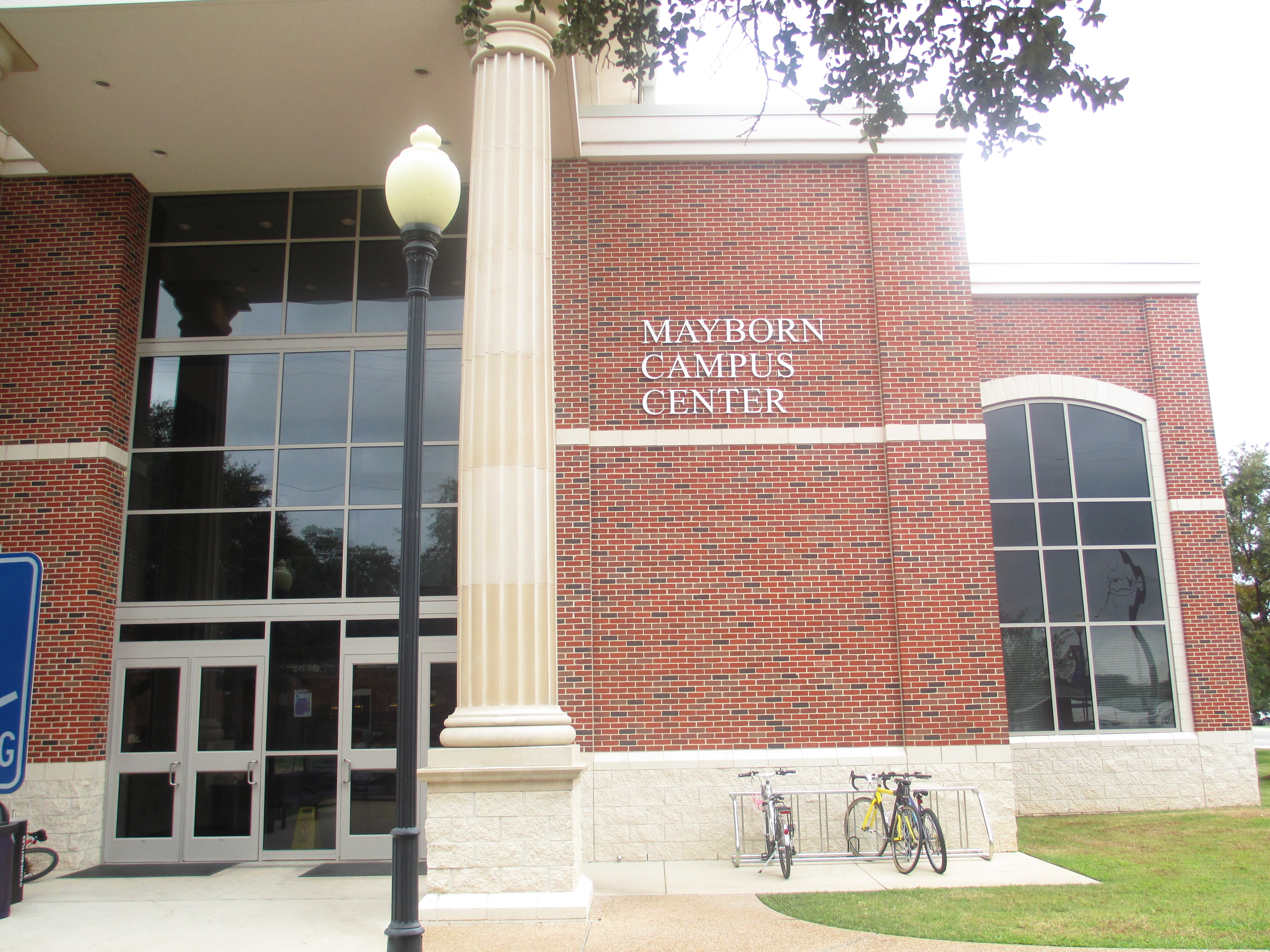 I took photo of Mayborn Campus Center at UMBH in Belton, TX.